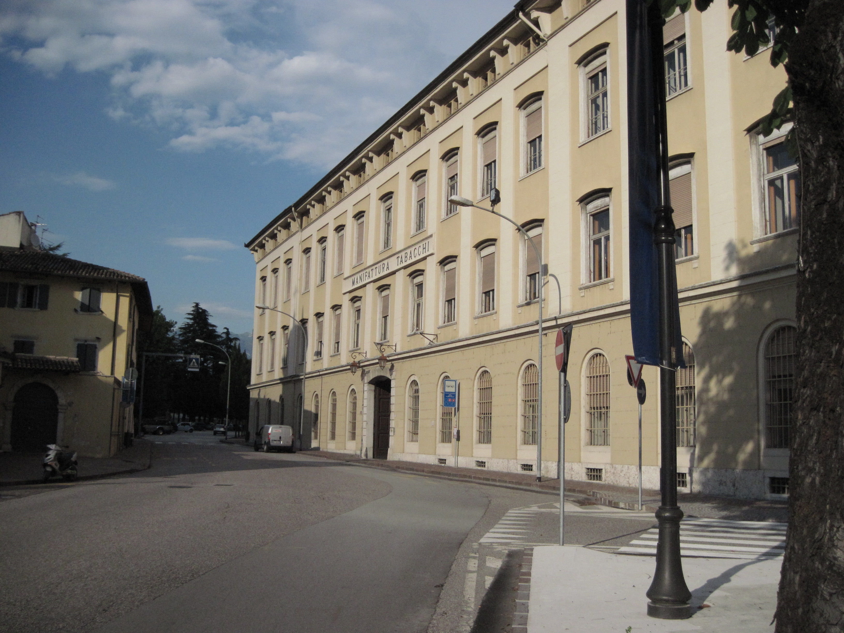 ex BAT Rovereto